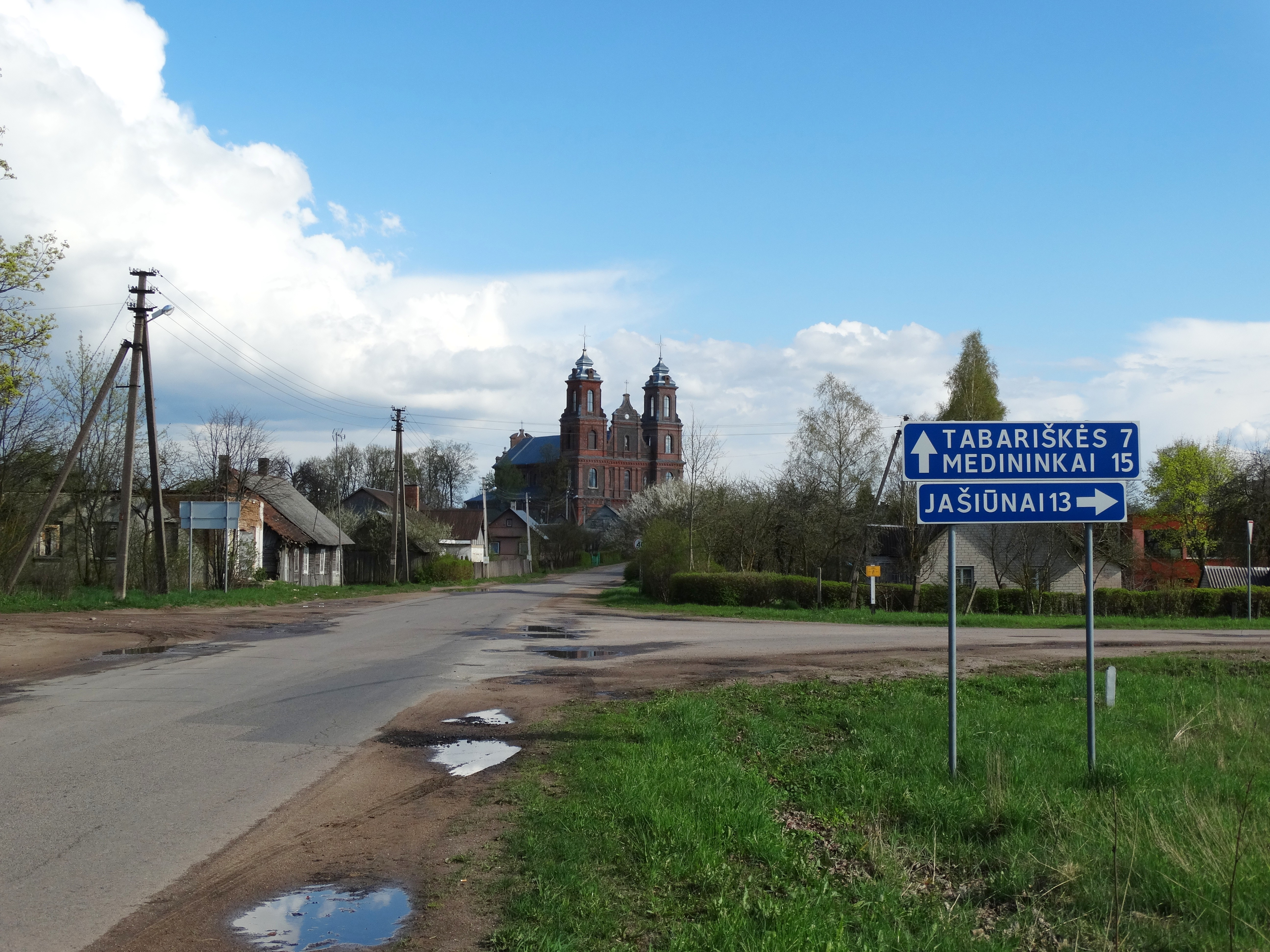 Turgeliai, Šalčininkai District, Lithuania